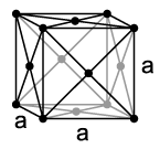 Cubic, face-centered crystal structure.